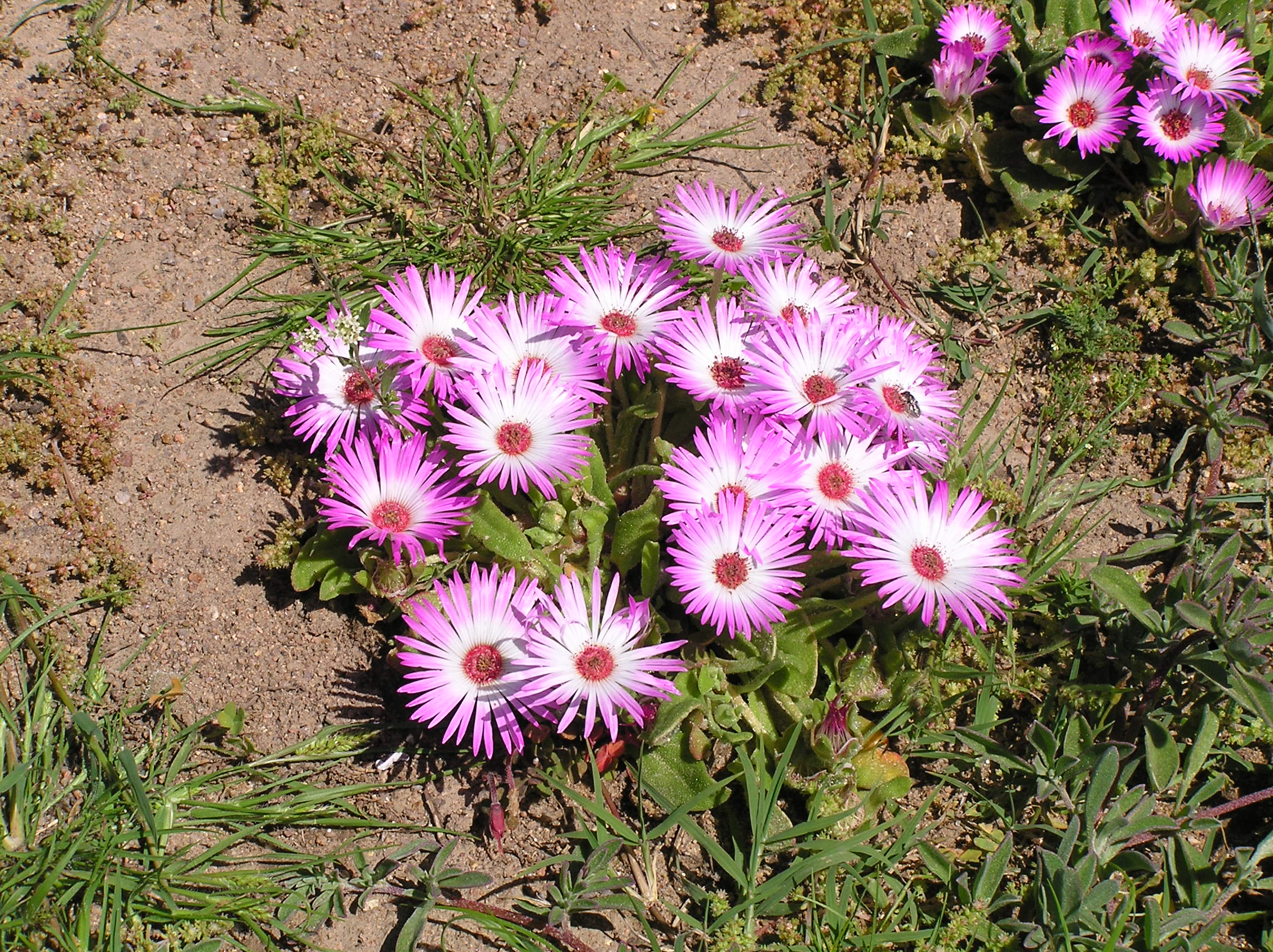 Buck Bay vygie, (Dorotheanthus bellidiformis (Burm.f) .), West Coast National park, Western Cape, South Africa